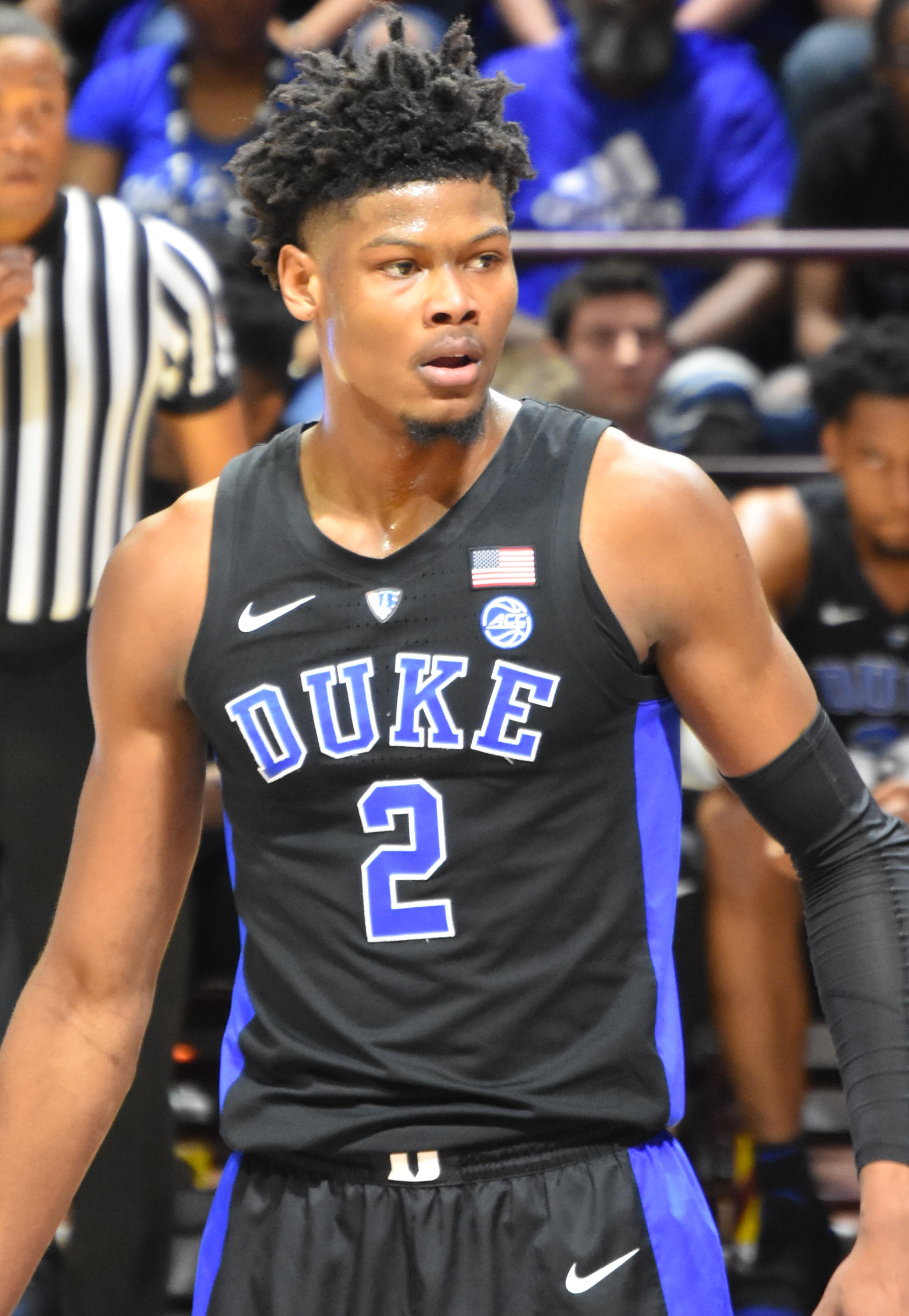 Cam Reddish on the floor for the Blue Devils at Cassell Coliseum